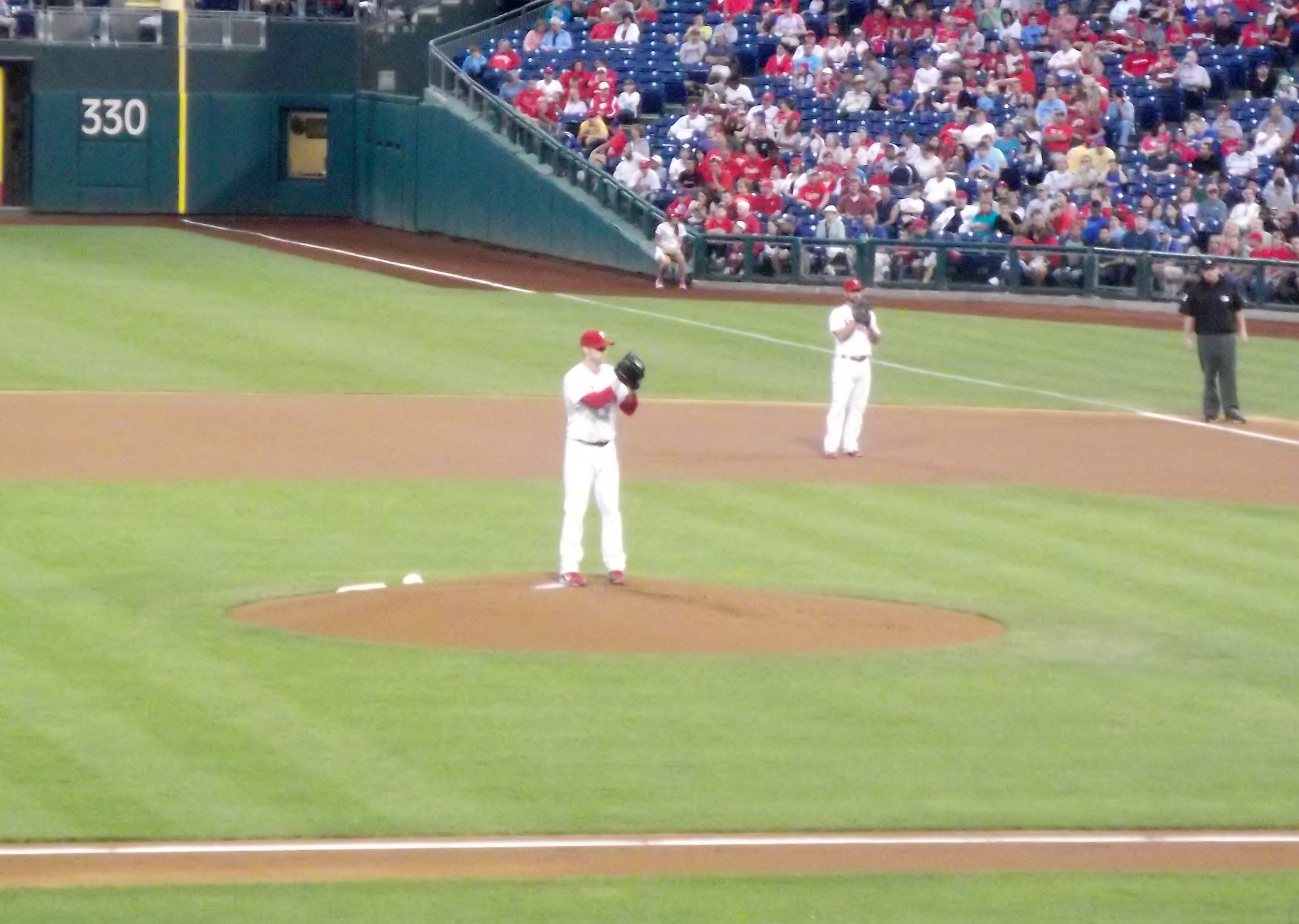 Kyle Kendrick looking for a sign in the first inning of the Phillies game on September 7, 2013